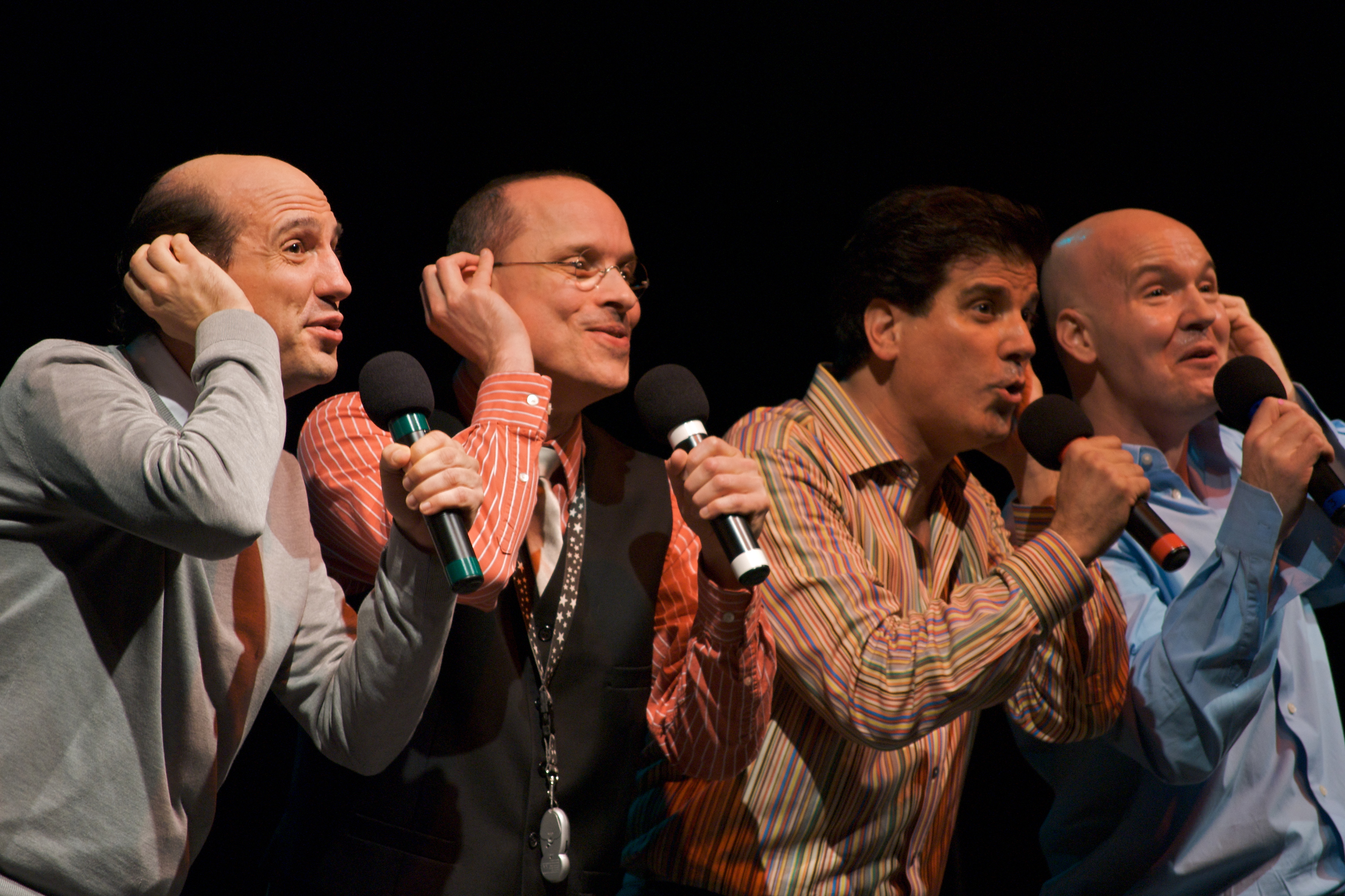 The Blanks at SUNY Geneseo. From left to right: Sam Lloyd, Paul F. Perry, George Miserlis, and Philip McNiven.